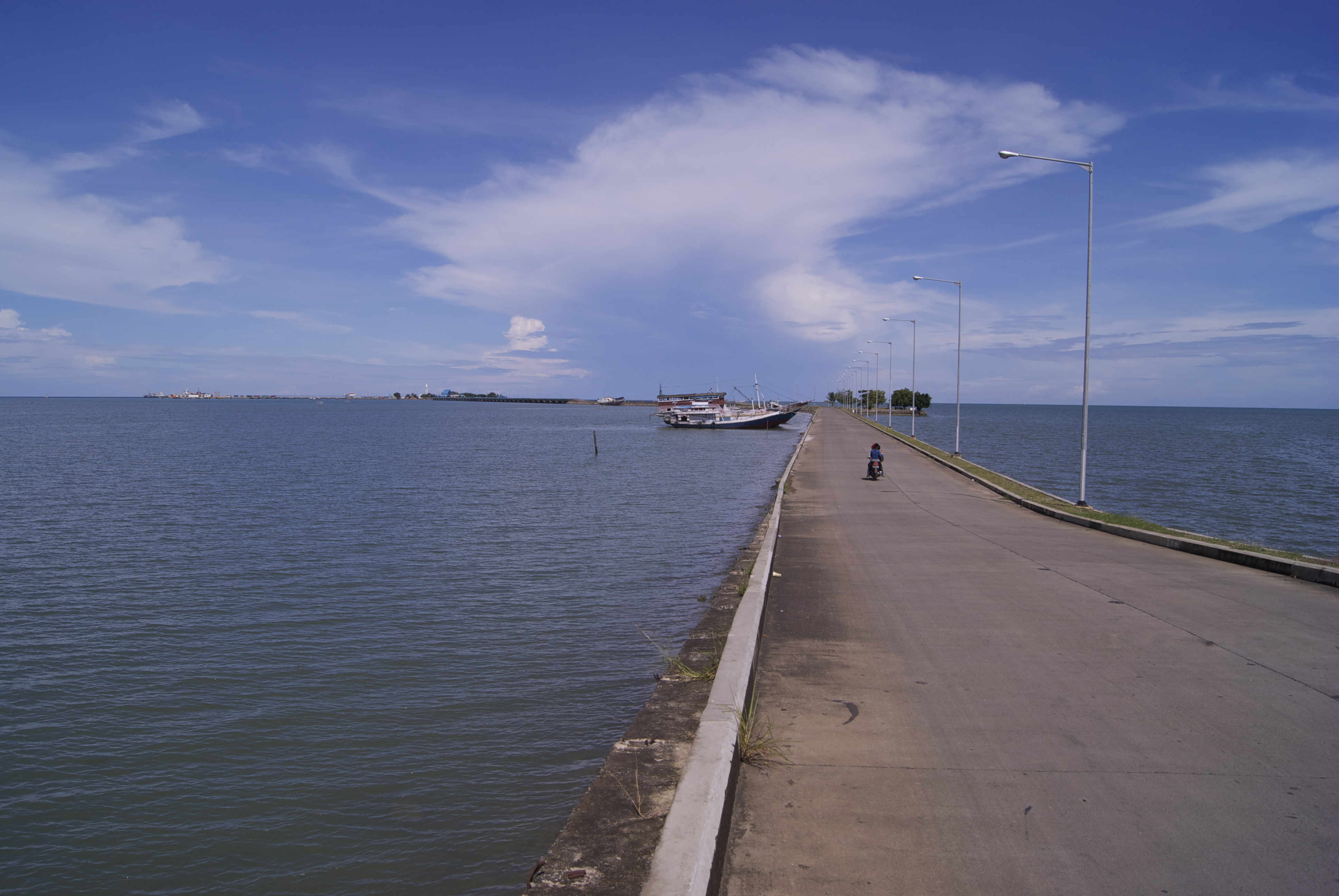 Port of Bajoe, Bone, South Sulawesi, Indonesia